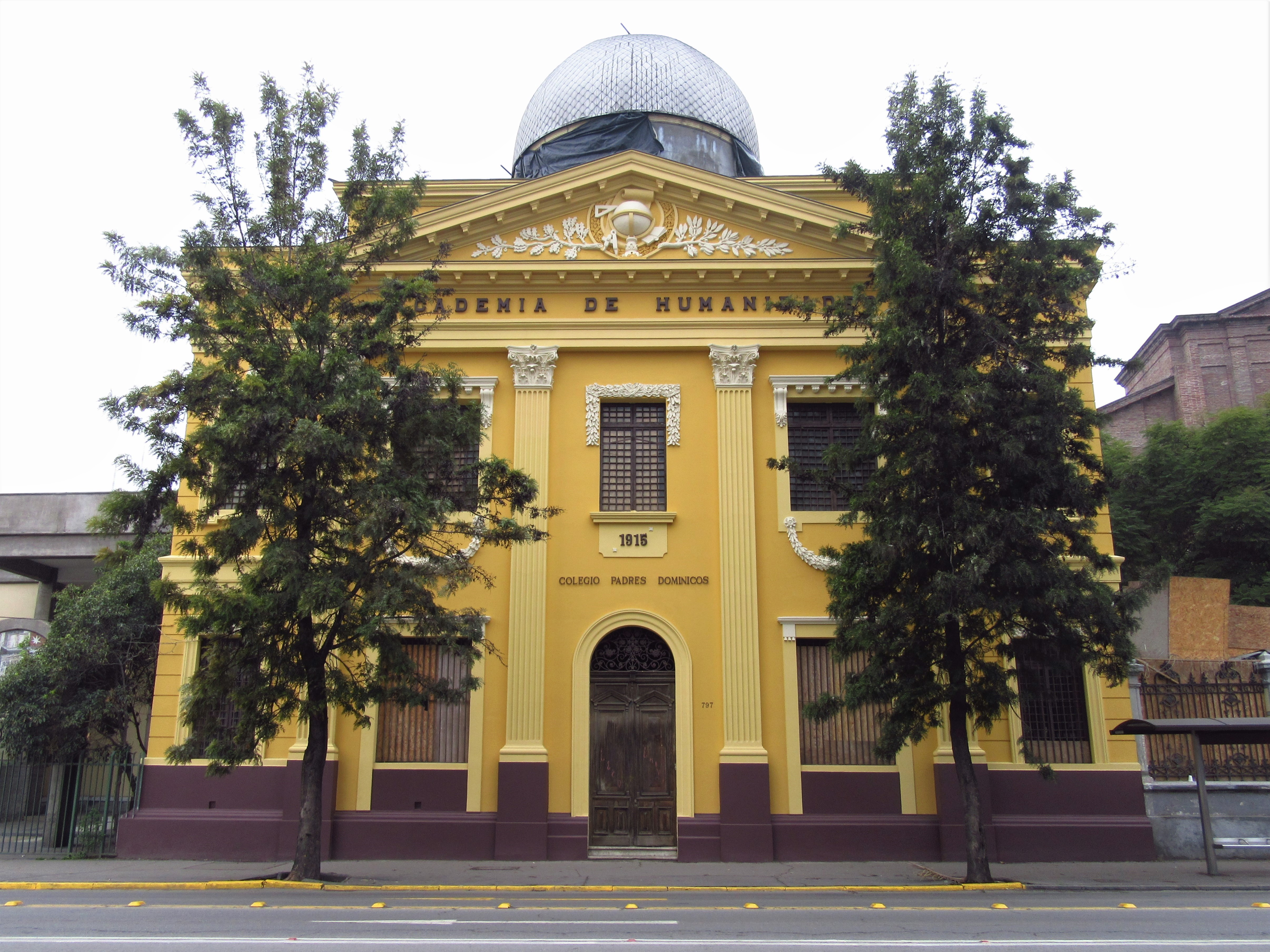 2017 in Santiago de Chile